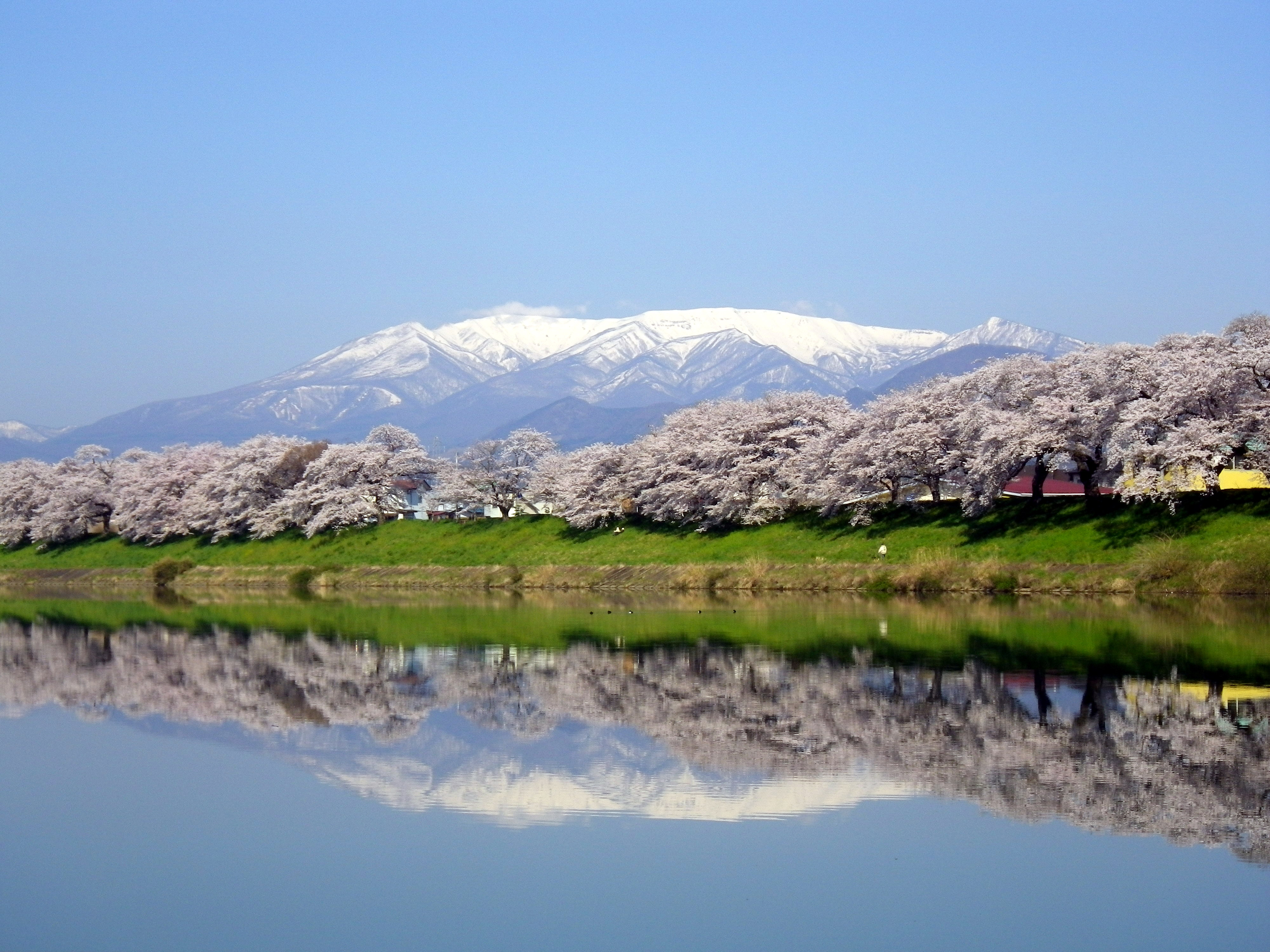 Hitome-senbon-zakura ("thousand cherry blossom trees at one glance") and Mount Zao seen with its inverted image on the Shiroishi River